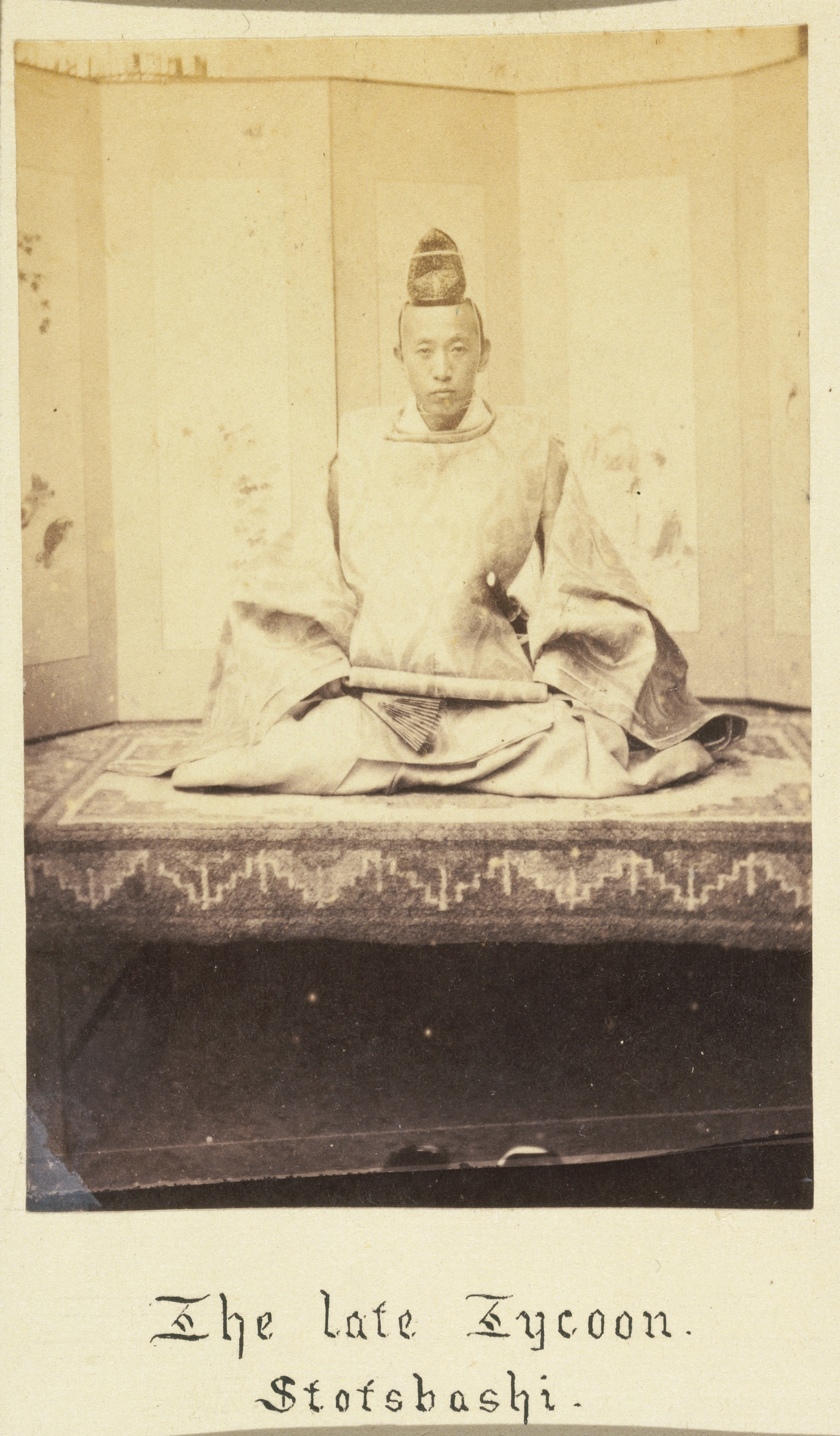 The Shogun Hitotsubashi Yoshinobu (ruled 1866-1867), photographed between 1866 and 1867. 1 b&w original photographic print(s). ID: PA1-f-021-064-02 Find out more about this image from the Alexander Turnbull Library.